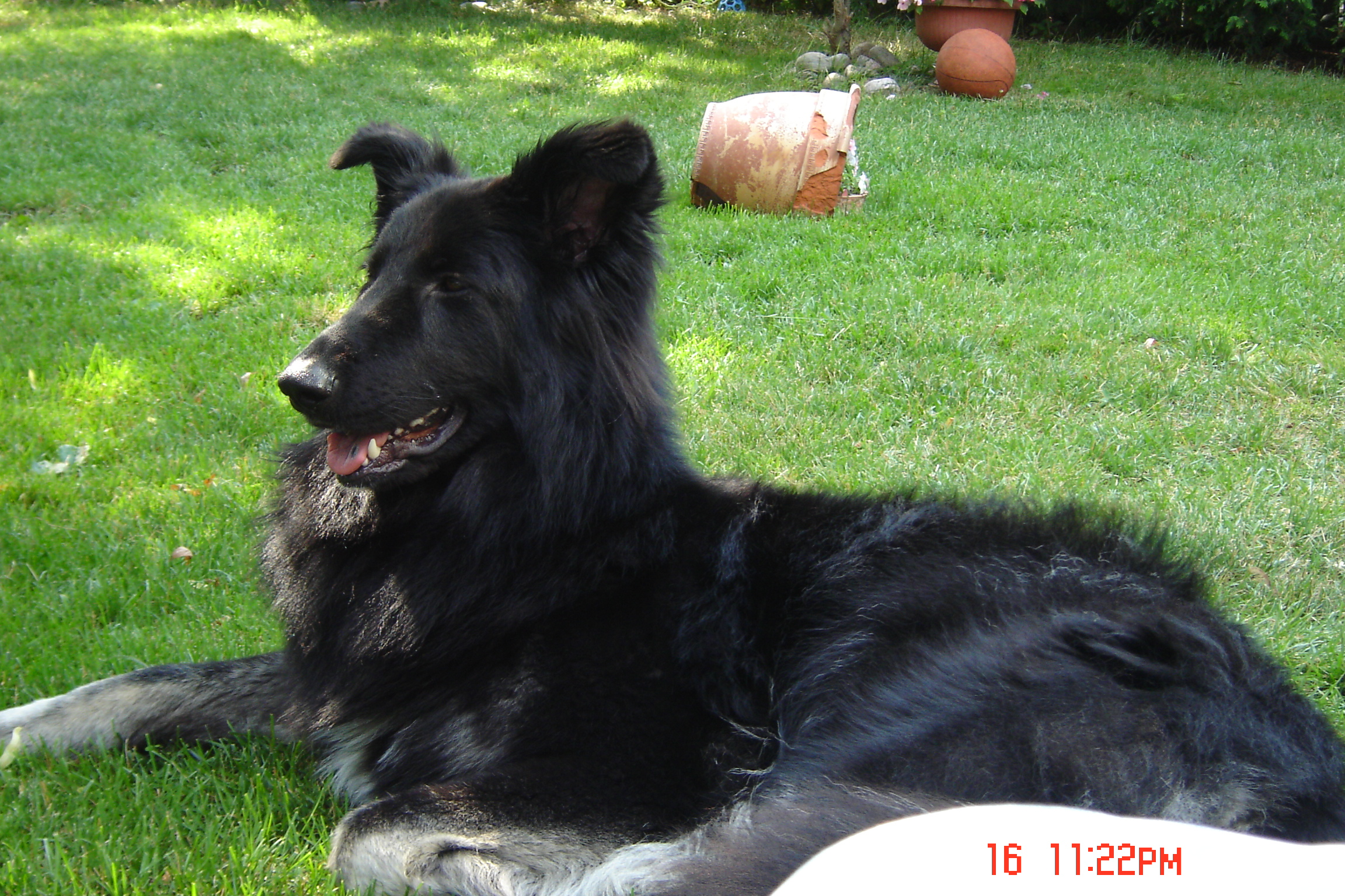 A dog of the Shiloh Shepherd breed on February 16, 2005.